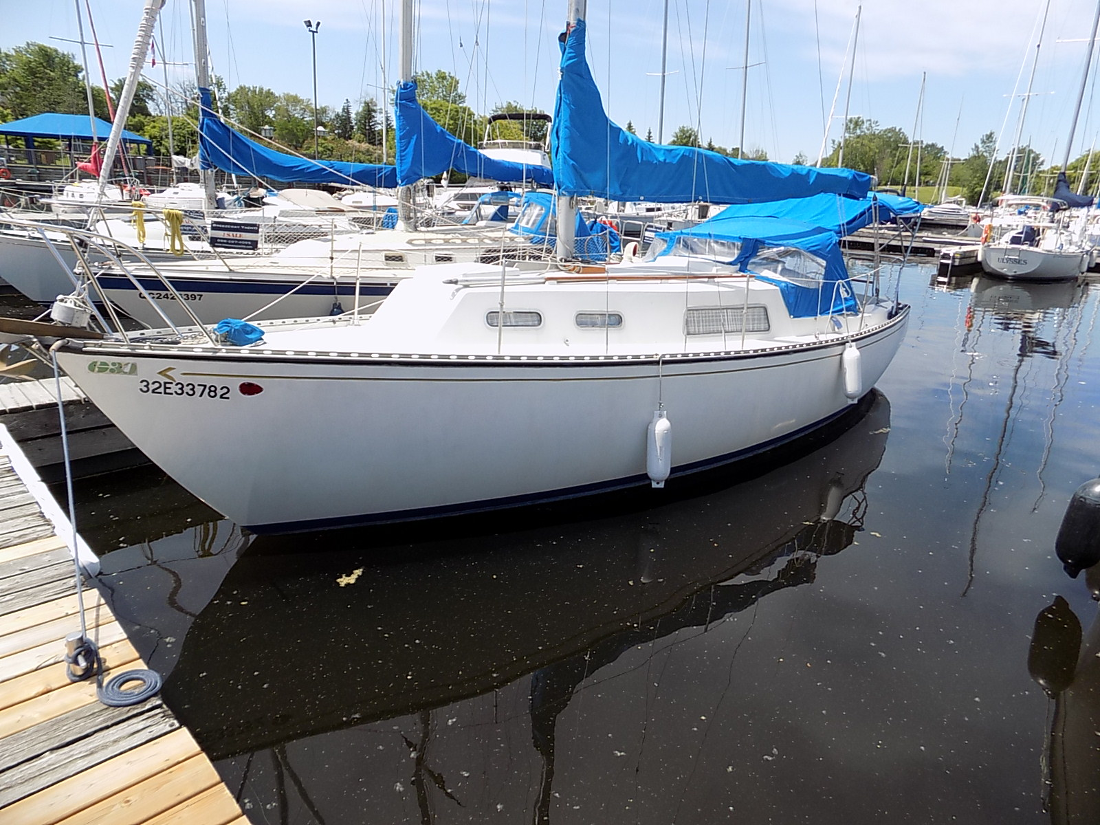 A Grampian 30 sailboat named Mistress.